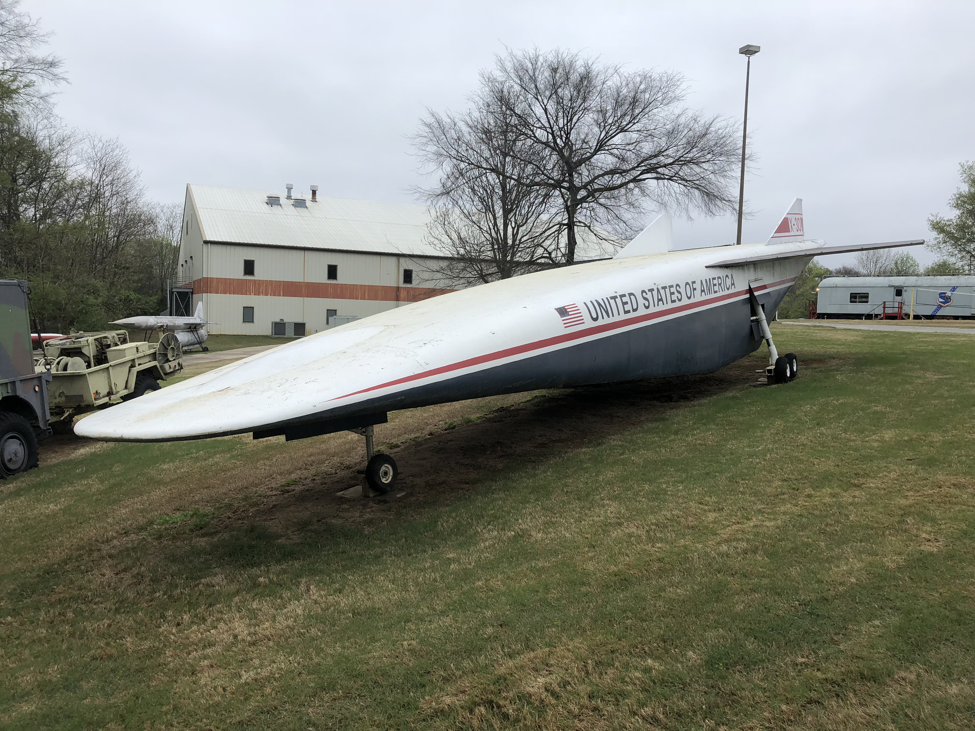 A newer design Rockwell X-30 model on display at the Aviation Challenge campus of the U.S. Space & Rocket Center in Huntsville, Alabama; note the flat, duckbill nose and double-dorsal fin tail that distinguishes it from the older model.